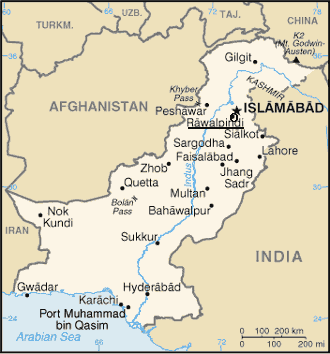 Map of Pakistan with Rawalpindi marked up. Based on pk_map.png, which is based on the CIA World Fact Book image. Image modified to be used for news about the assassination of Benazir Bhutto.